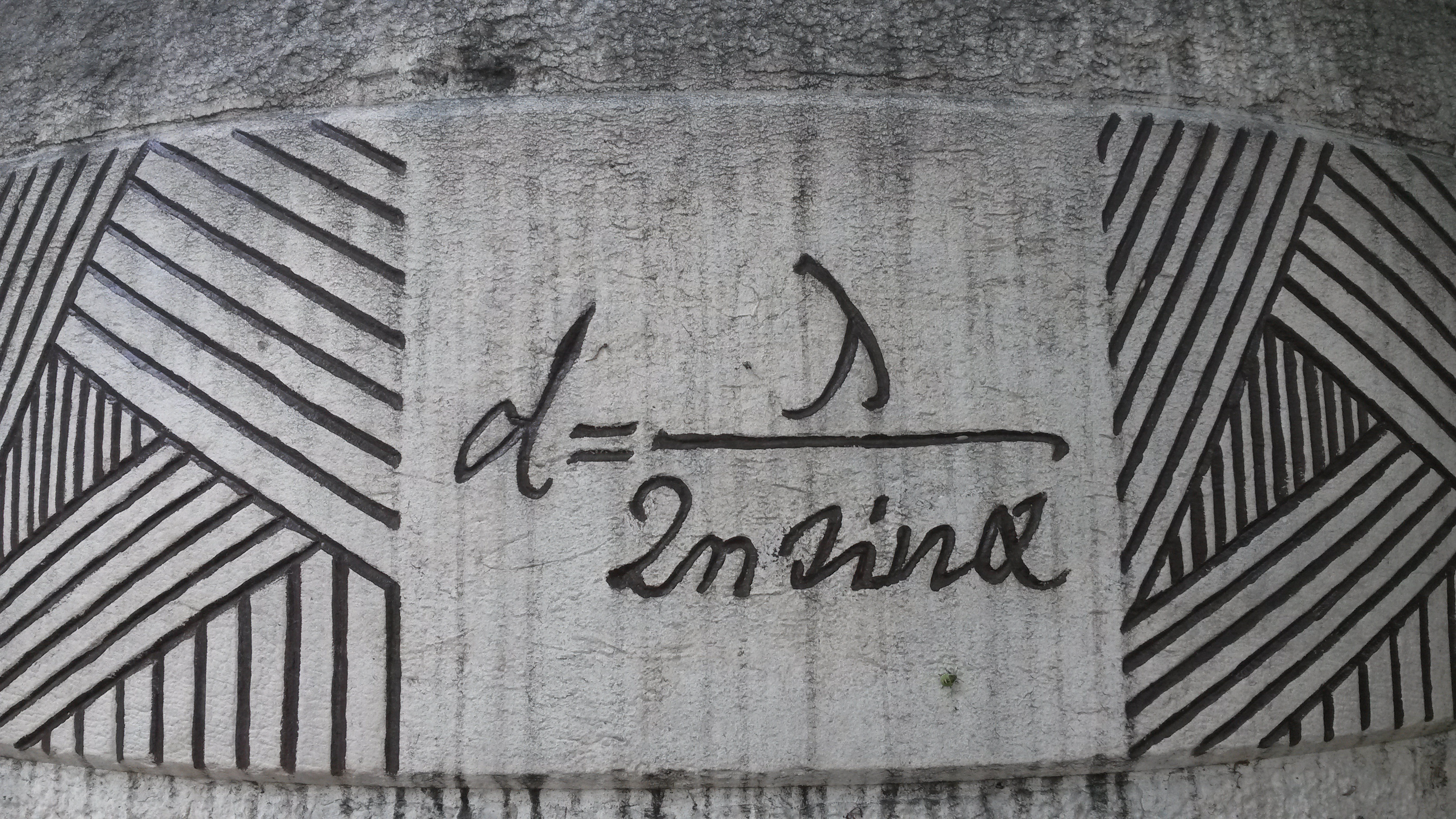 Ernst-Abbe-Denkmal Jena Fürstengraben